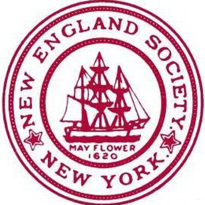 New England Society of New York Seal